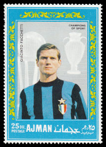 A 1968 Ajman stamp commemorating Inter Milan player Giacinto Facchetti.